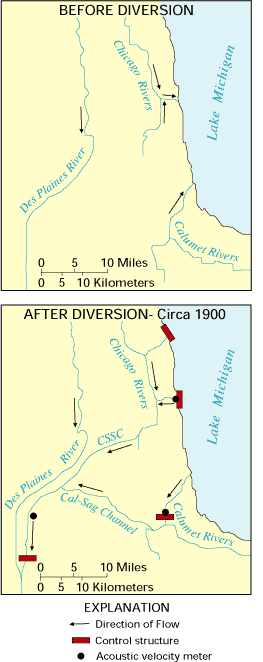 Flow of Chicago waterways before and after construction of the Chicago Sanitary and Ship Canal.